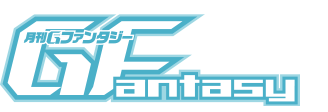 GFantasy (月刊Gファンタジー) logo.